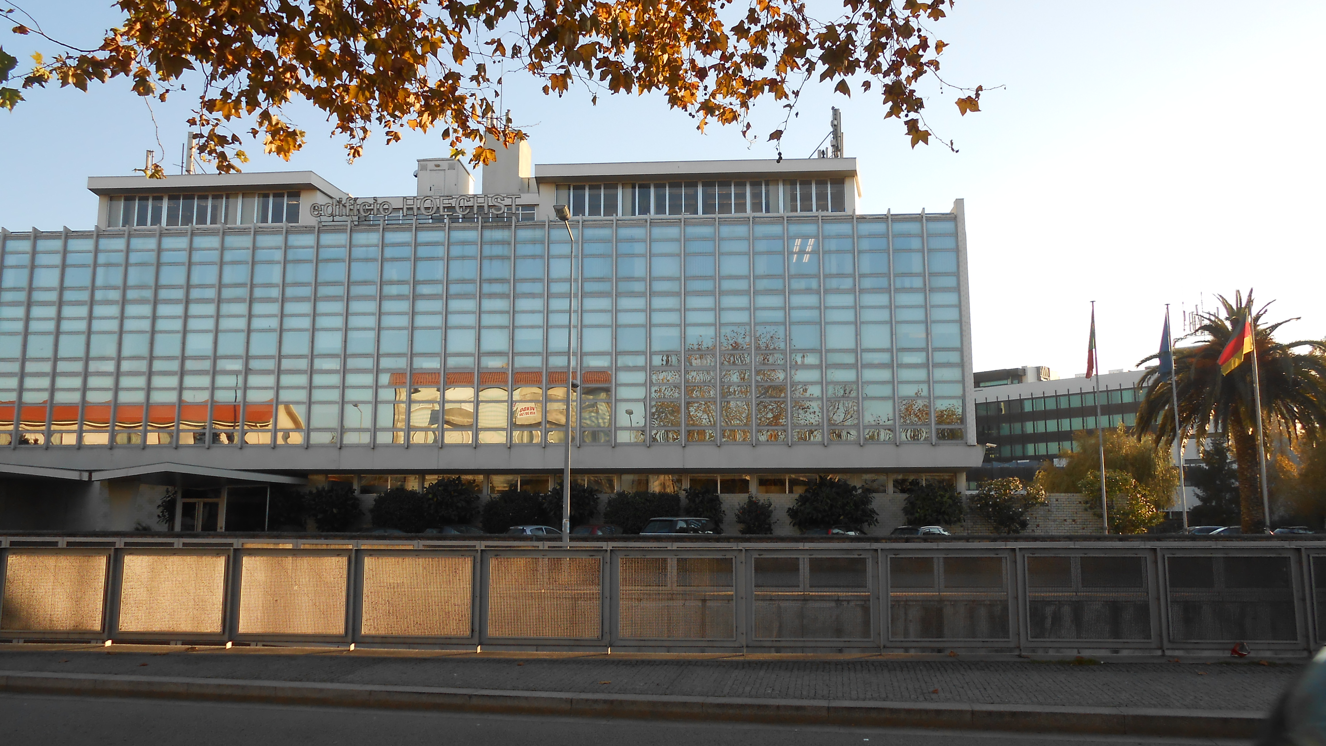 The Hoechst building in Oporto. This monument is classified as Em estudo.